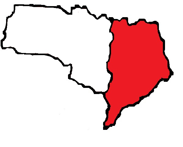 Tahara Shijonawatecity Osakapref area